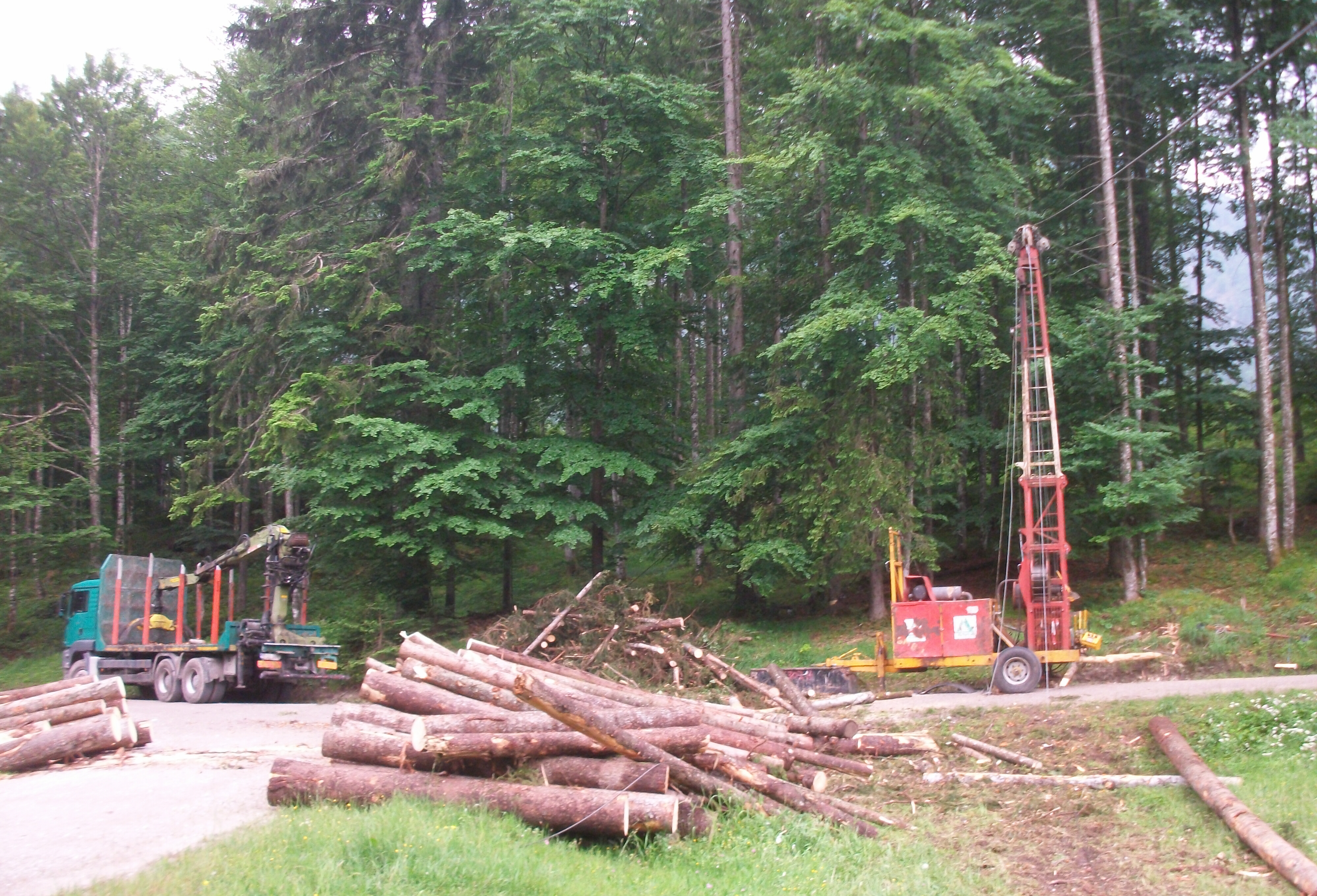 Rope crane